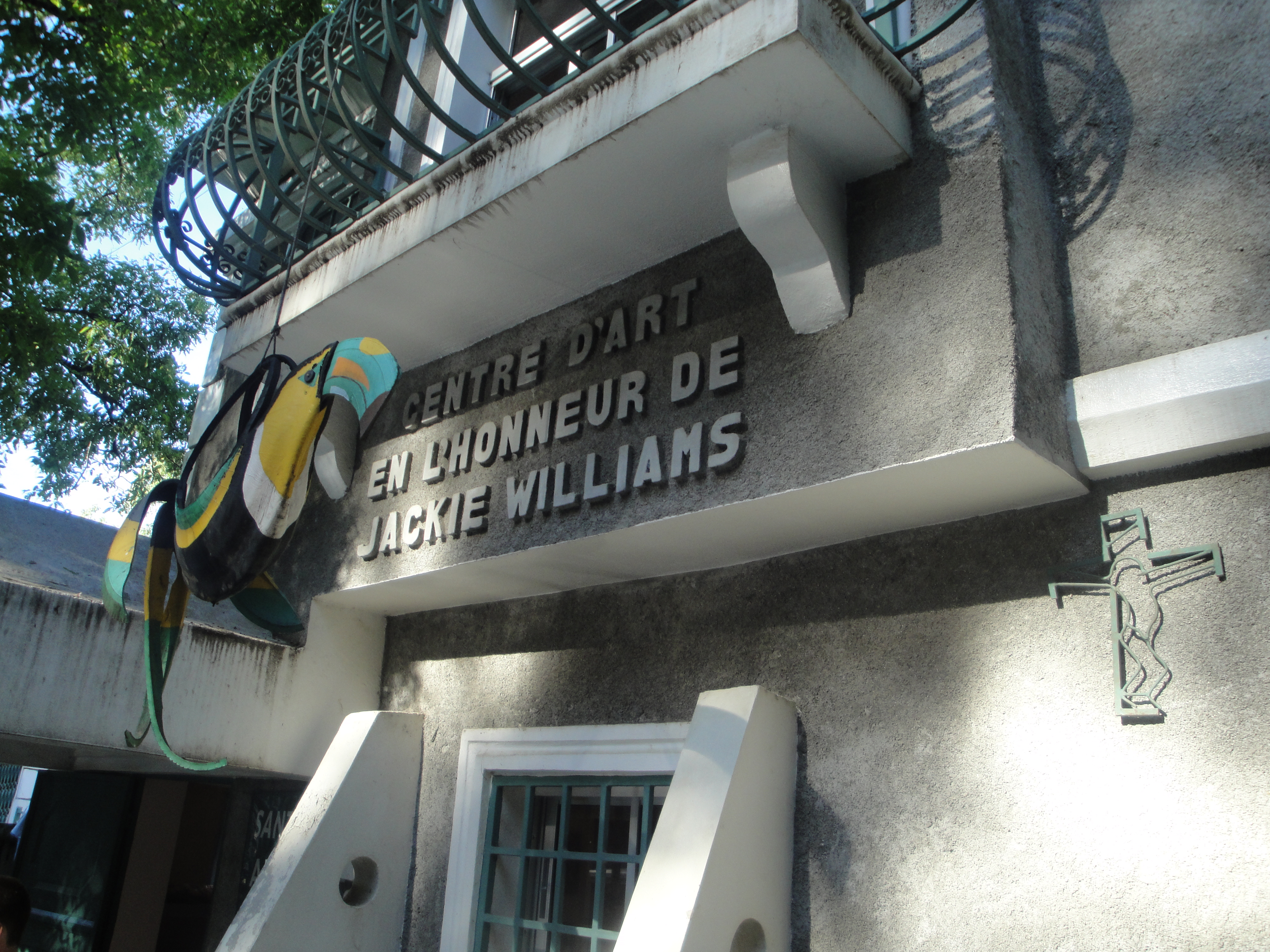 The storefront for Sant Art, an art center located in Cange, Haiti